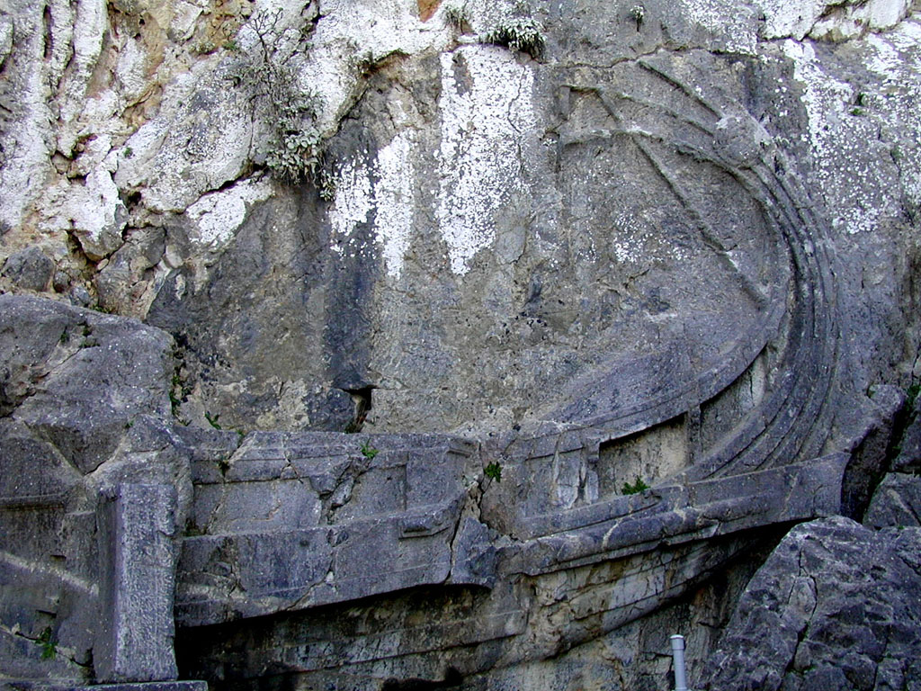 Rock cut ship monument signed by Pythokritos on Lindos acropolis. Photograph taken by Marsyas 20:22, 5 November 2005 (UTC)